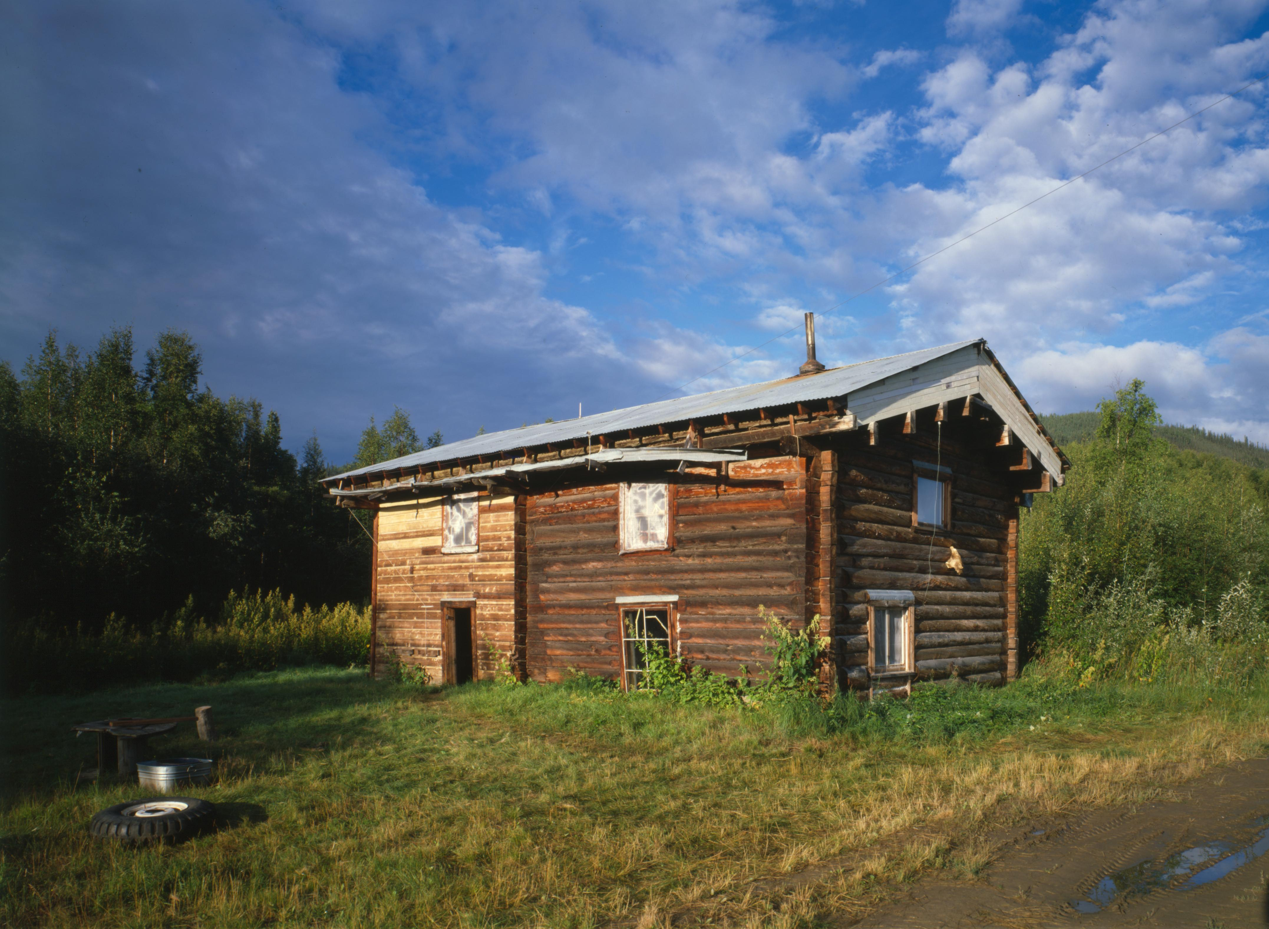 Frank Slaven Roadhouse, Yukon River at Coal Creek, Circle vicinity (Yukon-Koyukuk Census Area), Alaska.